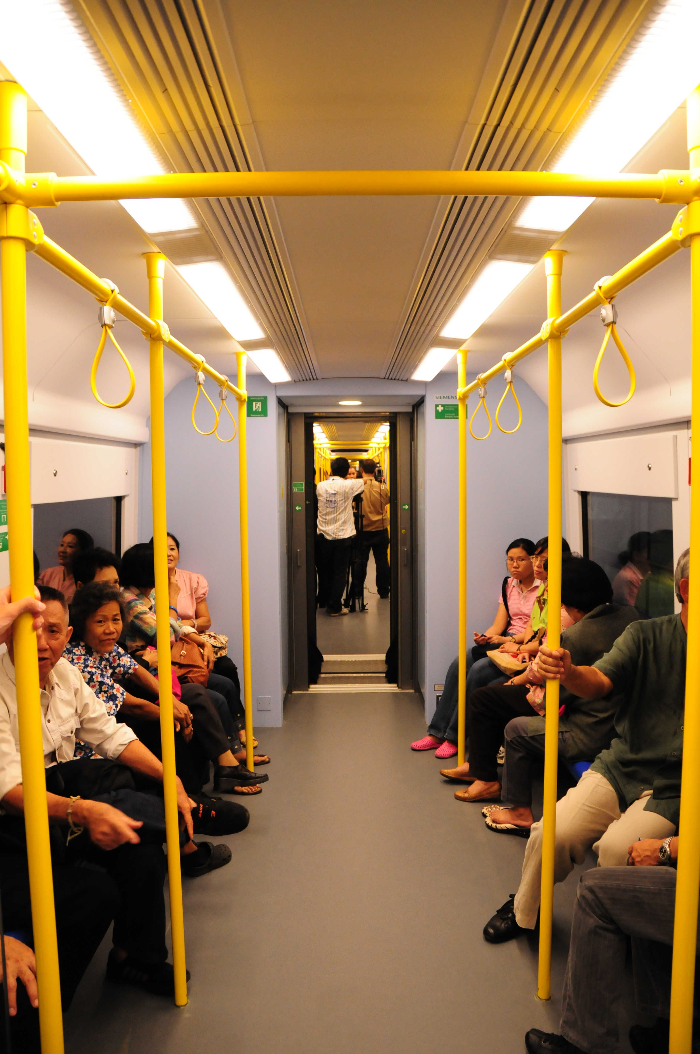 Inside Suvarnabhumi Airport Rail Link City Line Train